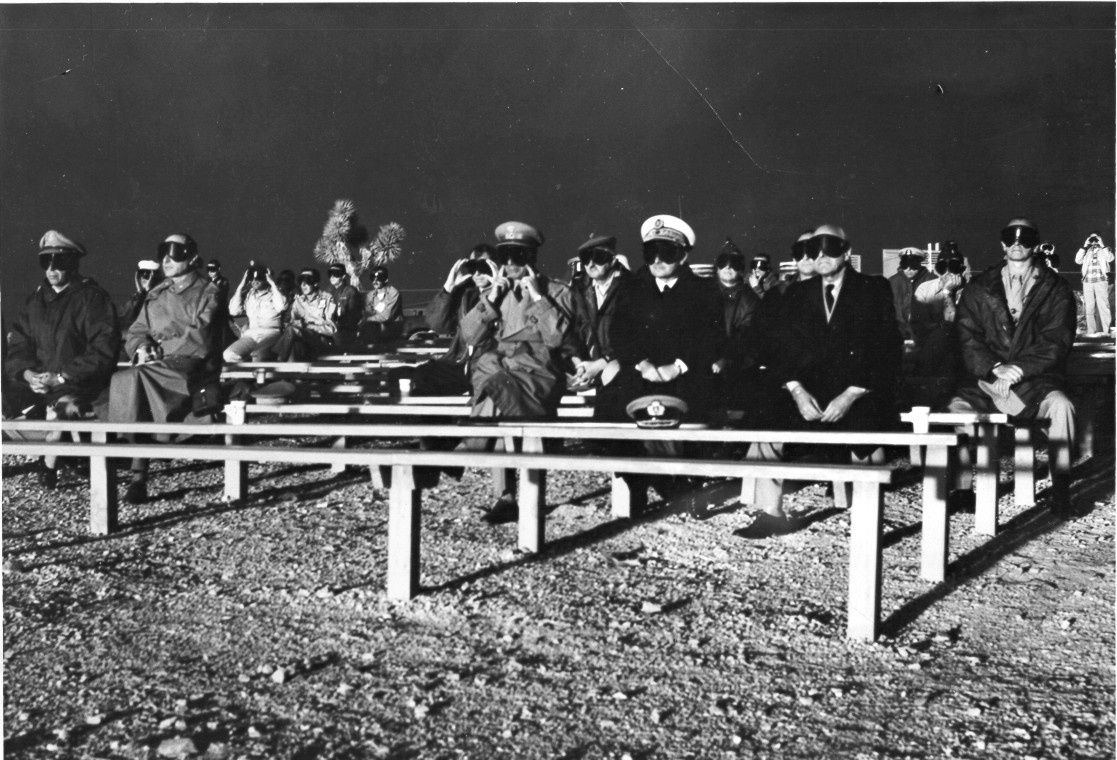 Operation Plumbbob, BOLTZMANN Event - A photograph of NATO observers attending BOLTZMANN Event (28 May 1957) detonation at Nevada Test Site.